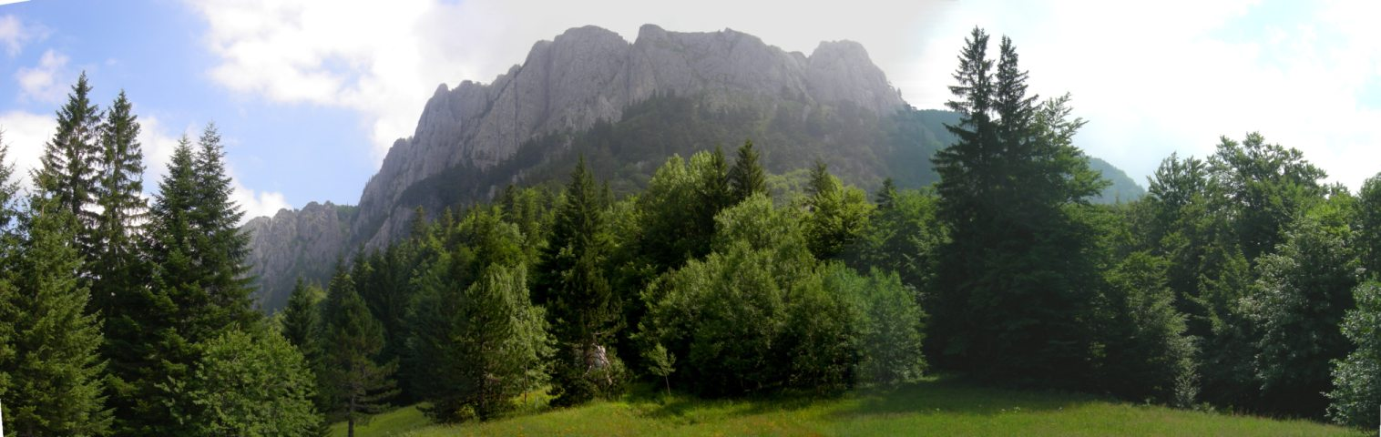 National park Sutjeska, view from Dragoš Sedlo.